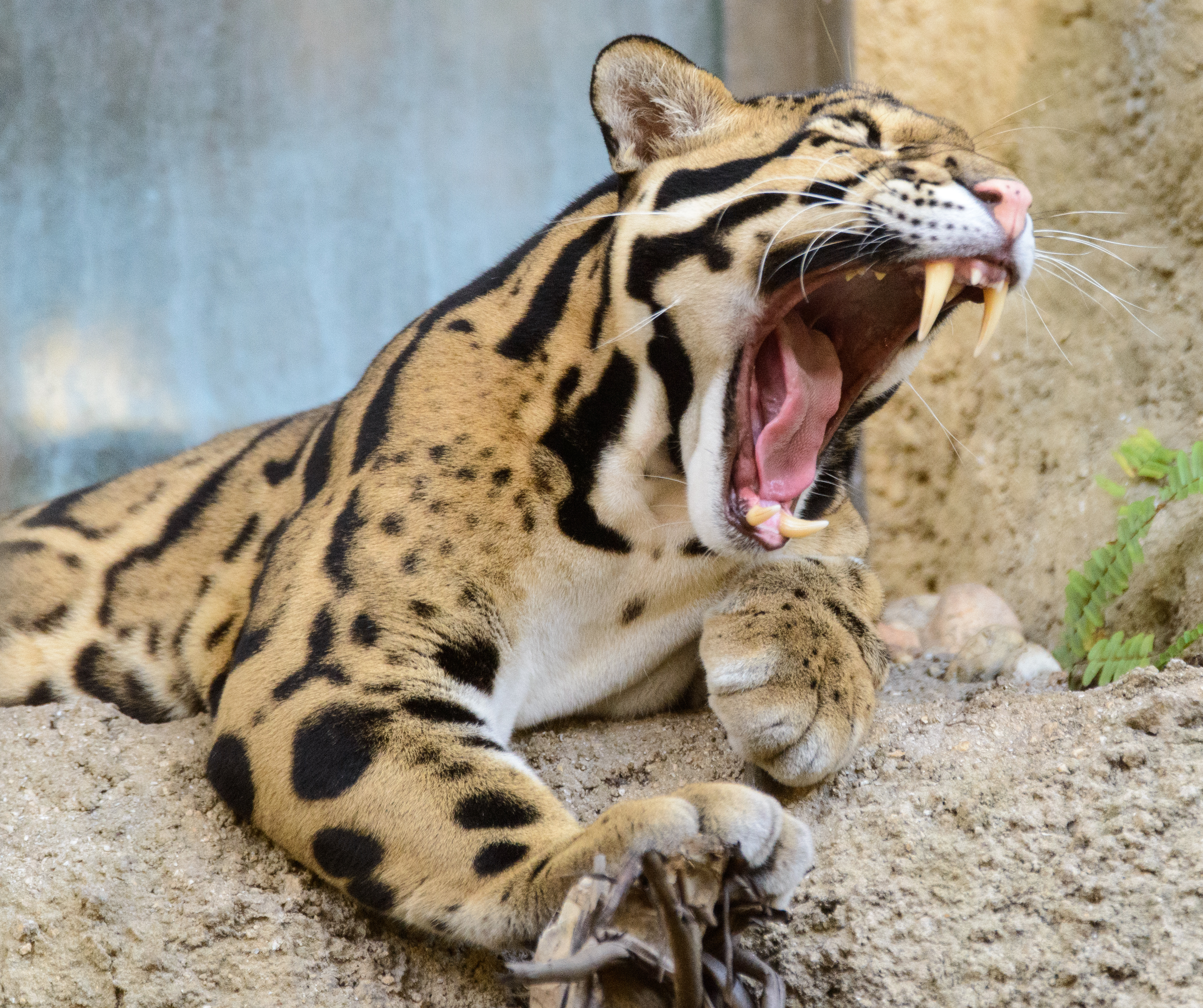 Clouded Leopard Mouth Open